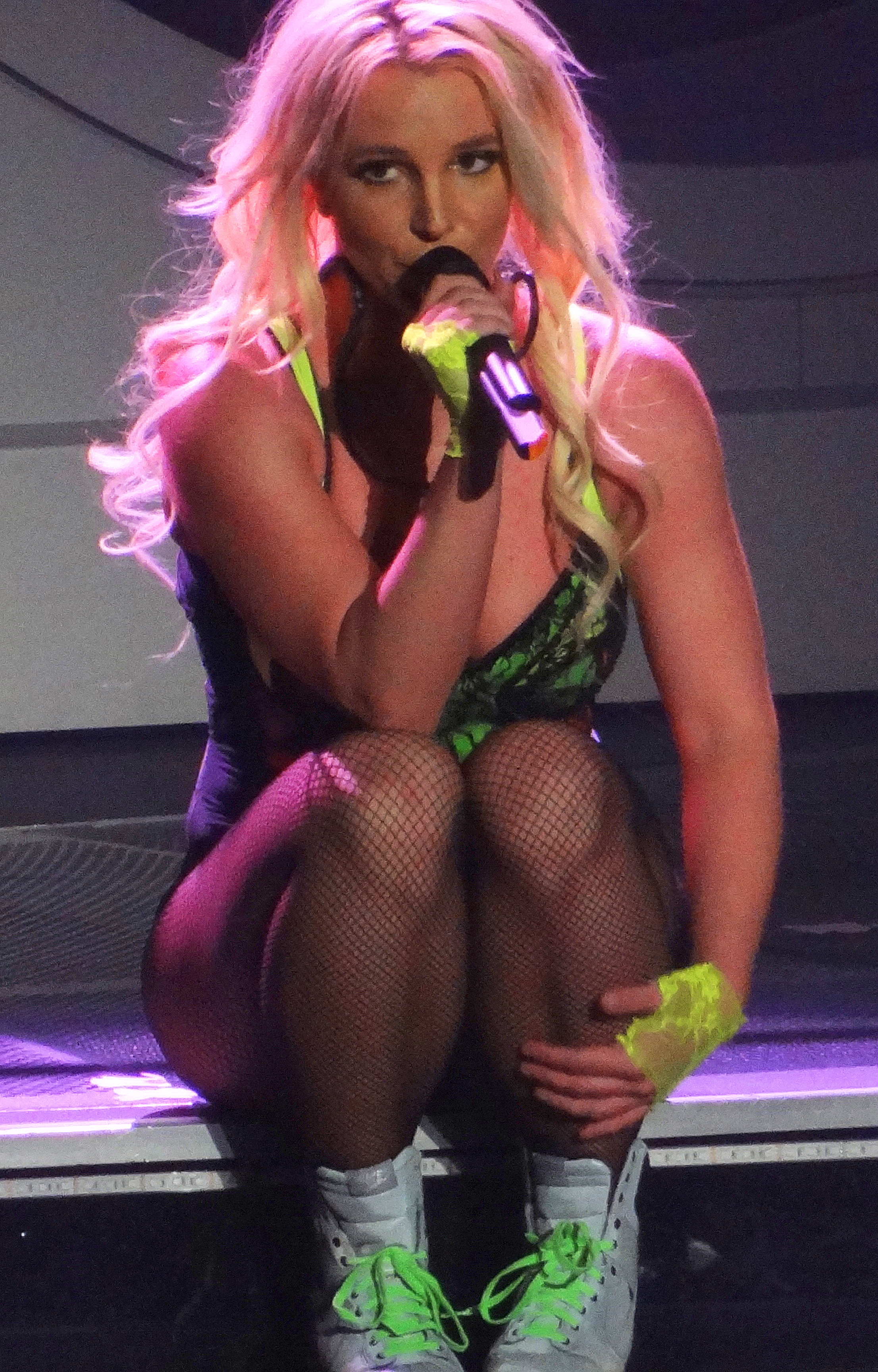 spears